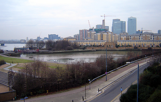 East India Dock, Leamouth, Tower Hamlets, London. 4 February 2006 (taken from Lower Lea Crossing). Photographer: Fin Fahey.